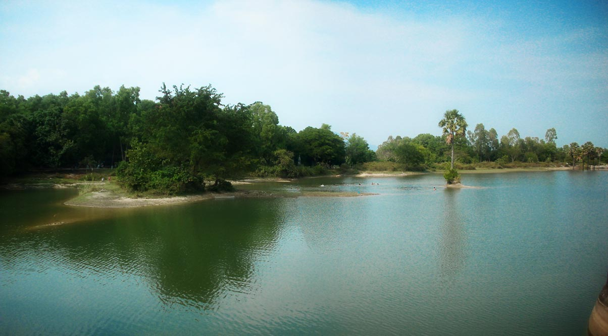 Soai Sor Lake - Tri Ton - An Giang - Viet Nam